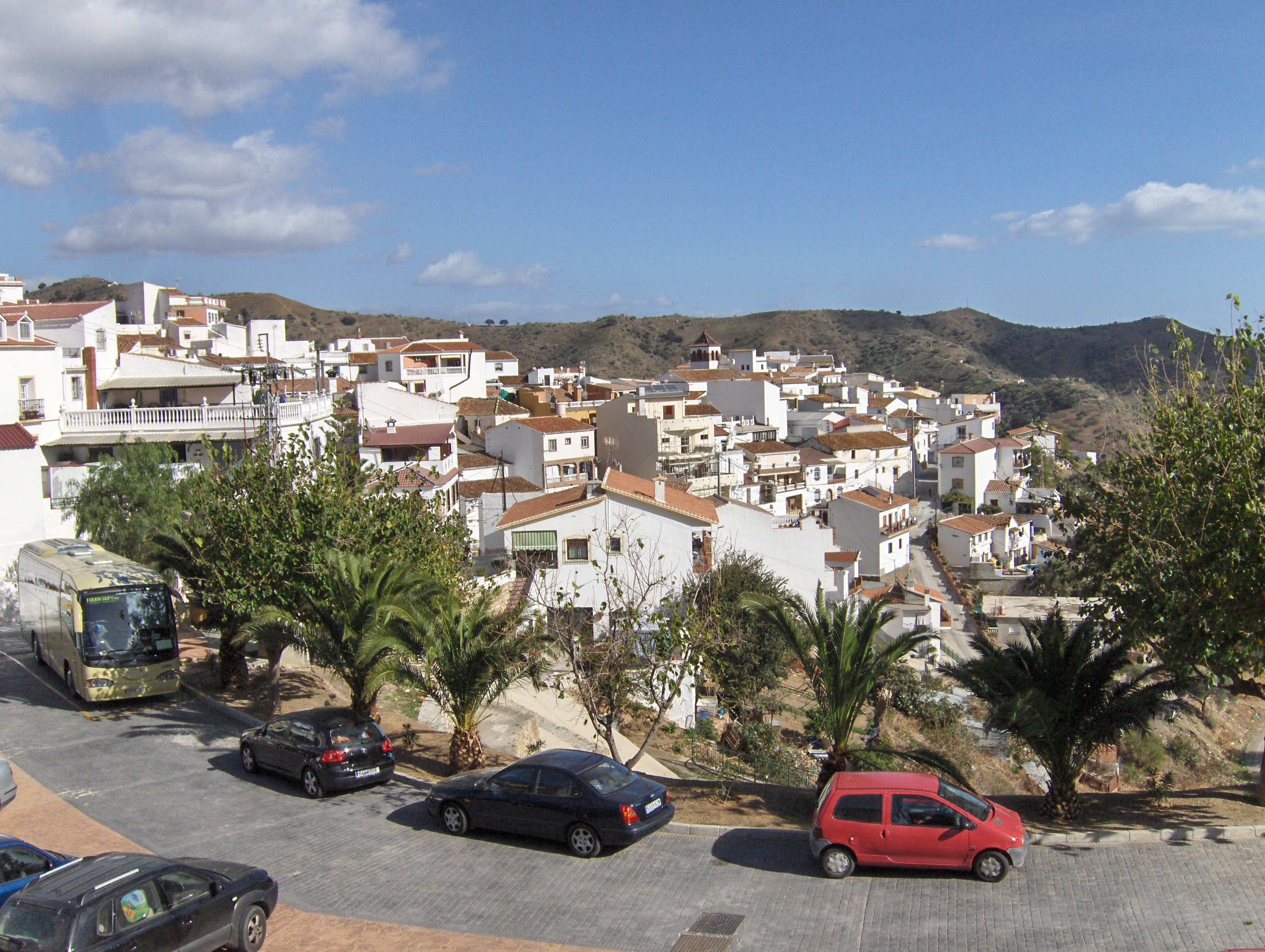 Moclinejo